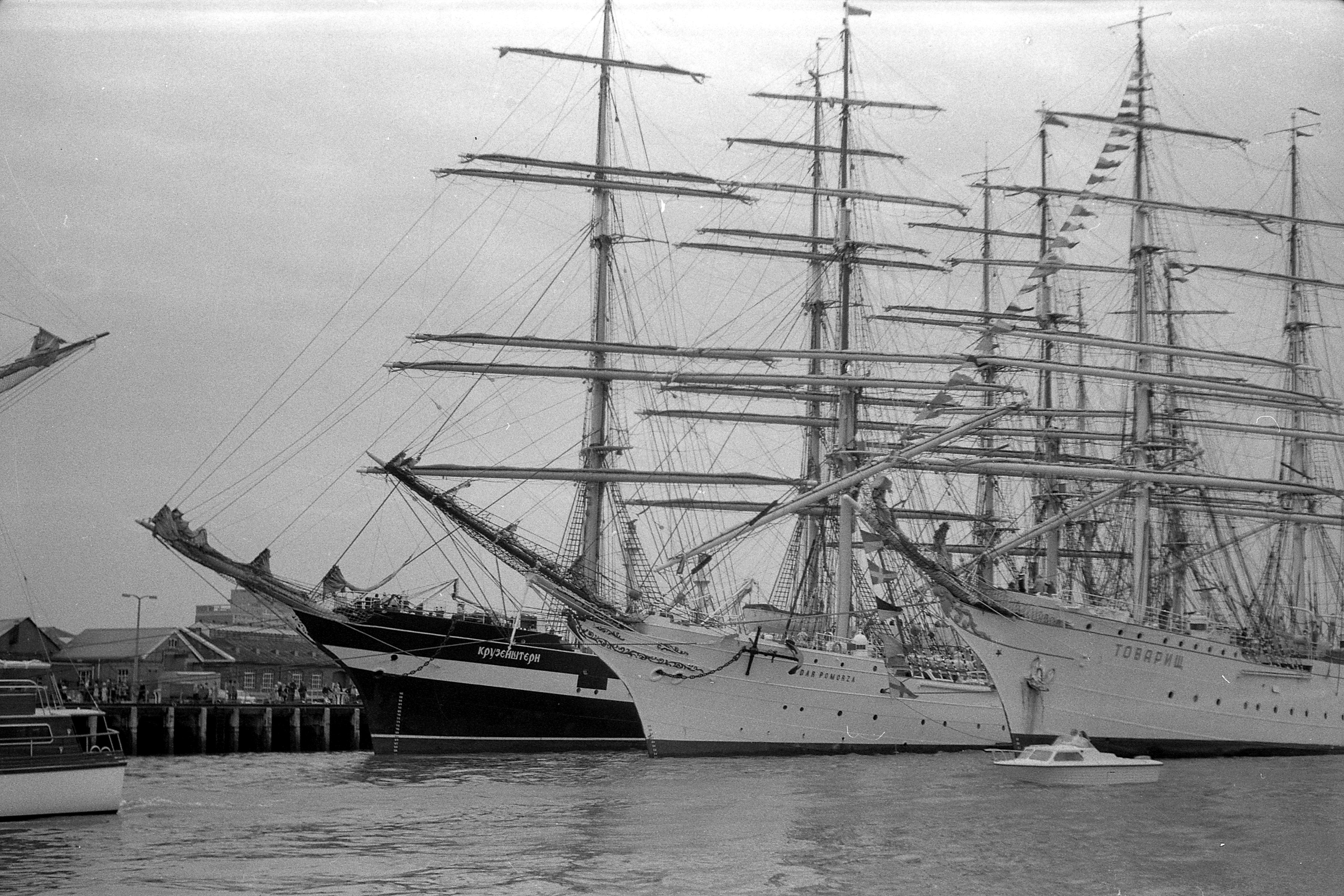 Russian & Polish tall ships in Portsmouth Harbour